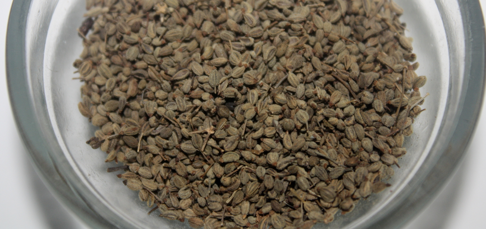 Parsley seeds (রাধুনি),Kolkata, West Bengal, India